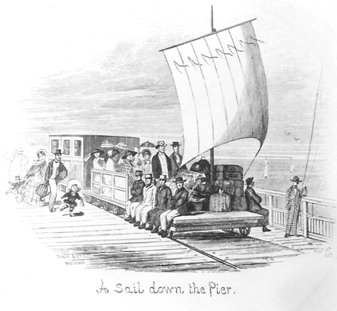 1855 woodcut or lithograph of the pier tram on the first Herne Bay pier which was built in 1832. The tram ran from 1833, and was powered by sail and foot - i.e. when there was not enough wind, pier employees had to push it. This picture was published before 1923. It is signed "Rock & Co, Walbrook", and is in possession of the Herne Bay Record Society, which kindly sent it for upload to Wikipedia under the licence below. As of 2010, the picture is on display at Herne Bay Museum, Kent, England.